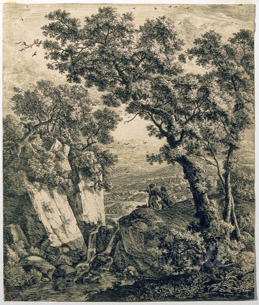 Print by Anthonie Waterloo, a Dutch 17th century artist, depicting Tobias and the Angel .